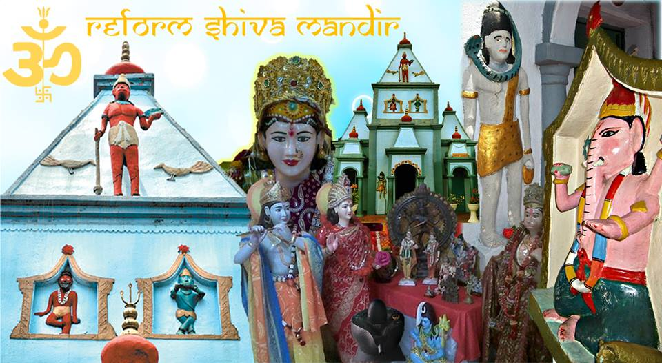 Reform Shiva Mandir Located at # 1 Railway Road Reform Village Gaparillo